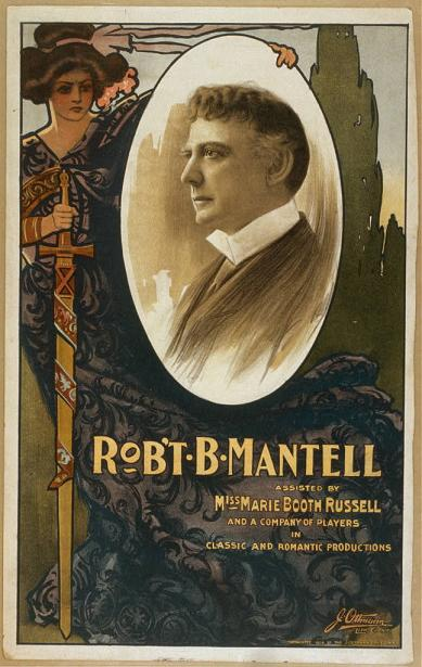 Robert B. Mantell, Scottish actor